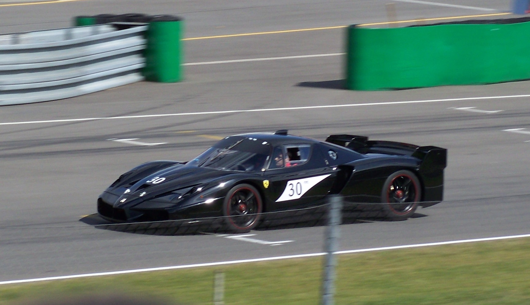 Ferrari FXX